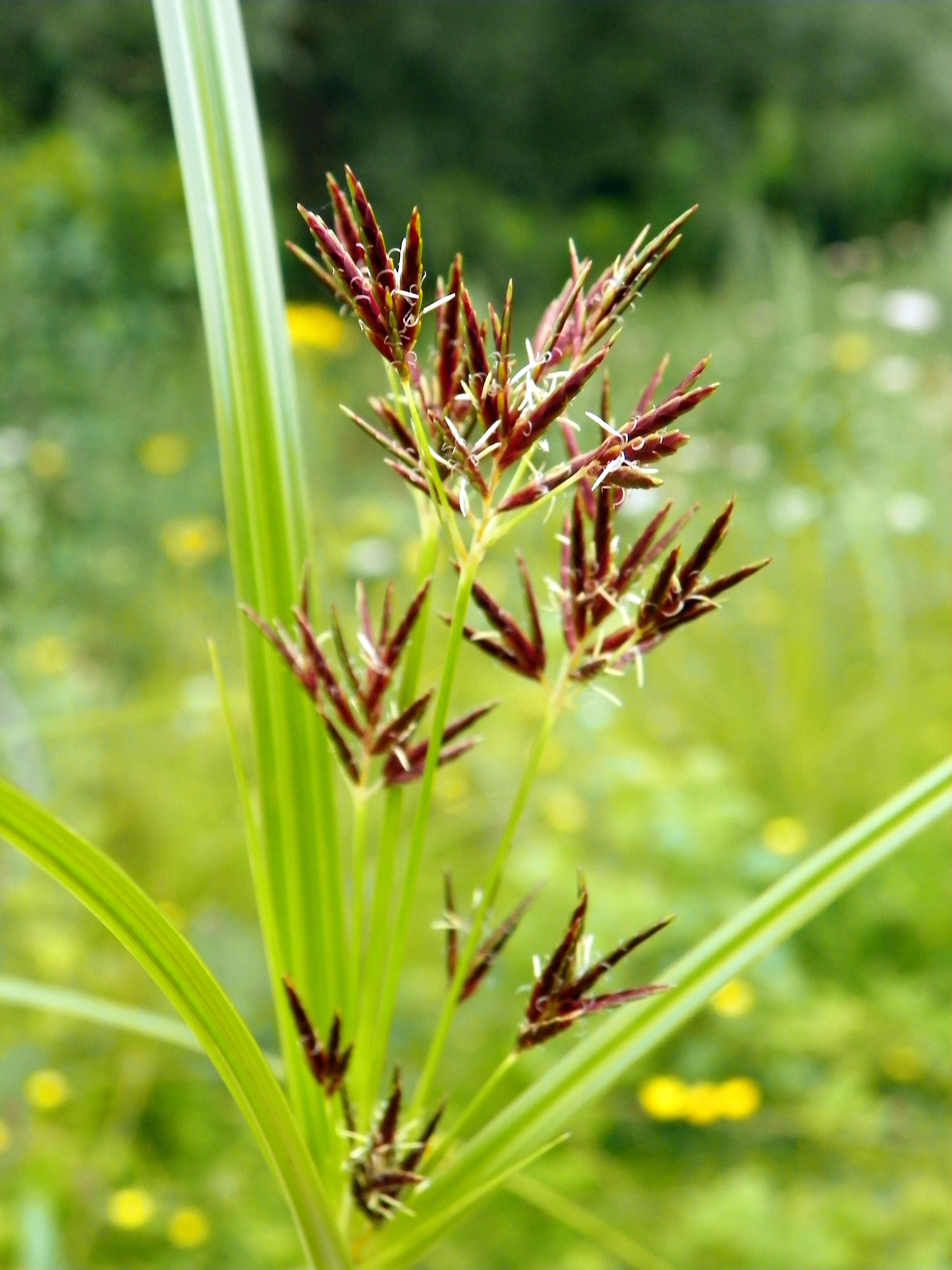 Sweet Galingale (Cyperus longus), Fairlands Valley Park, Stevenage, 1 August 2012.